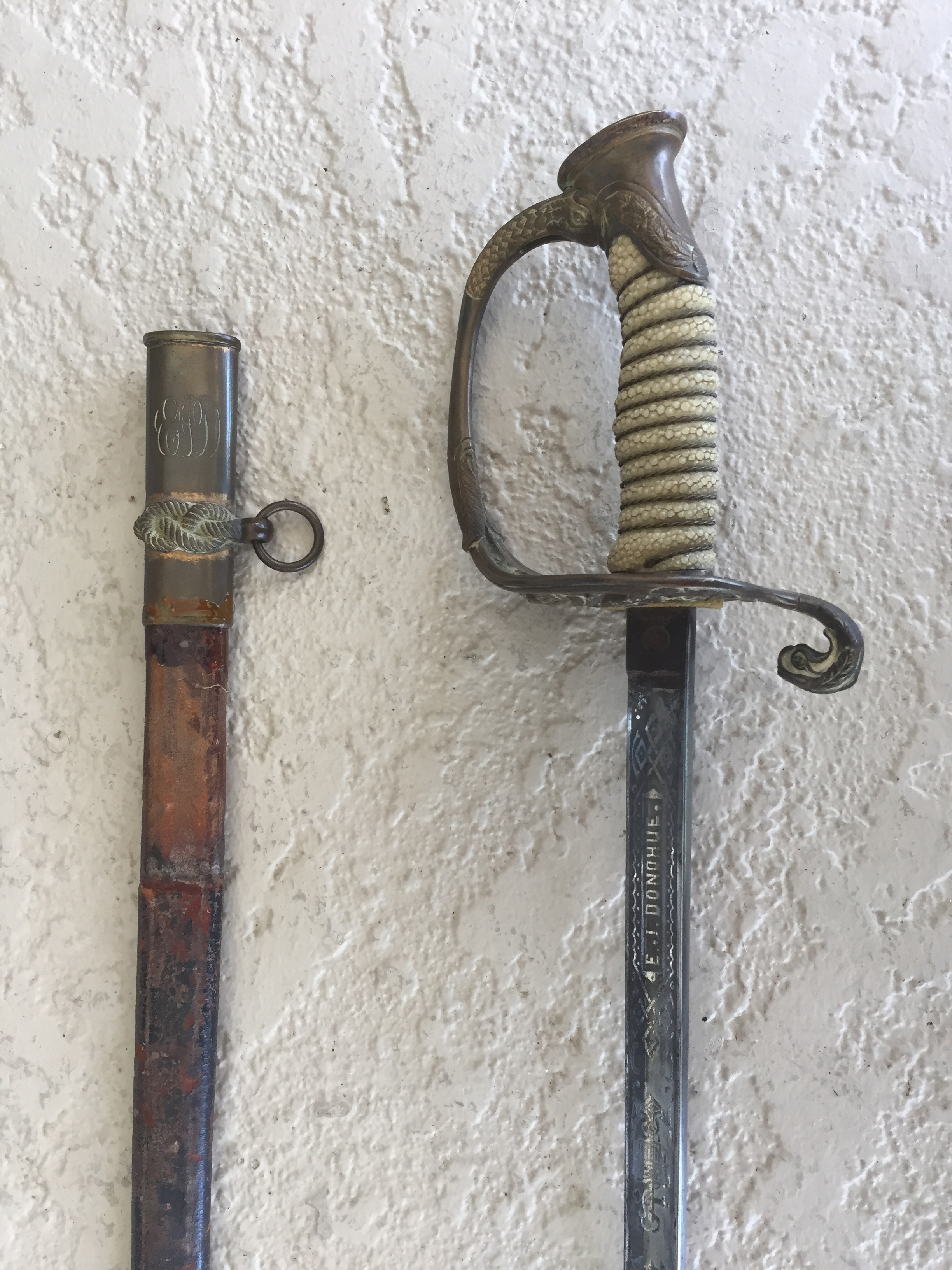 United States Revenue Cutter Service Officer's Sword of Edward J. Donohue circa 1906. This is a standard style Model 1852 Naval Officer's Sword. This sword is marked, "ROSENFELD BROS BALTIMORE".